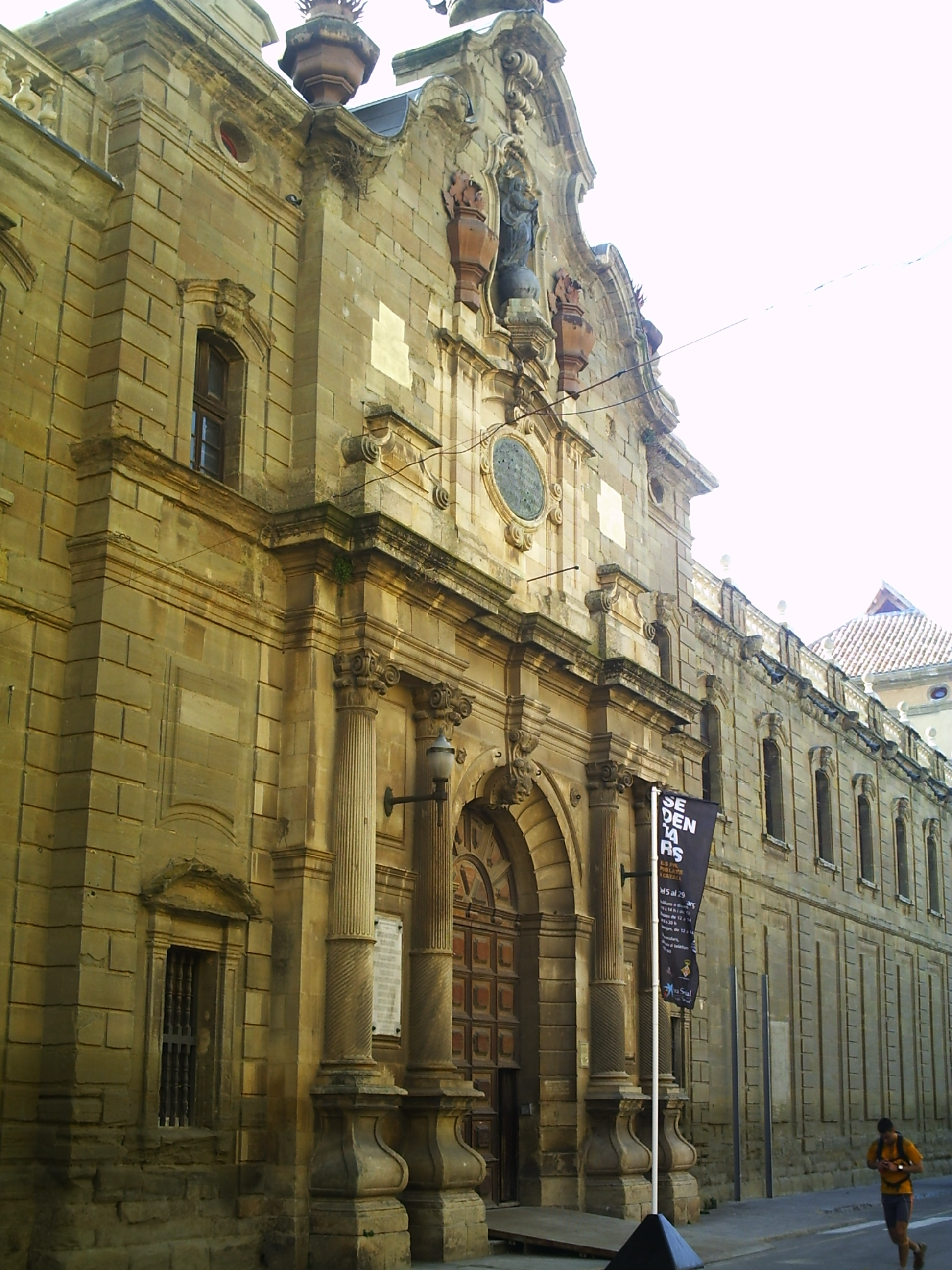 The University building of Cervera